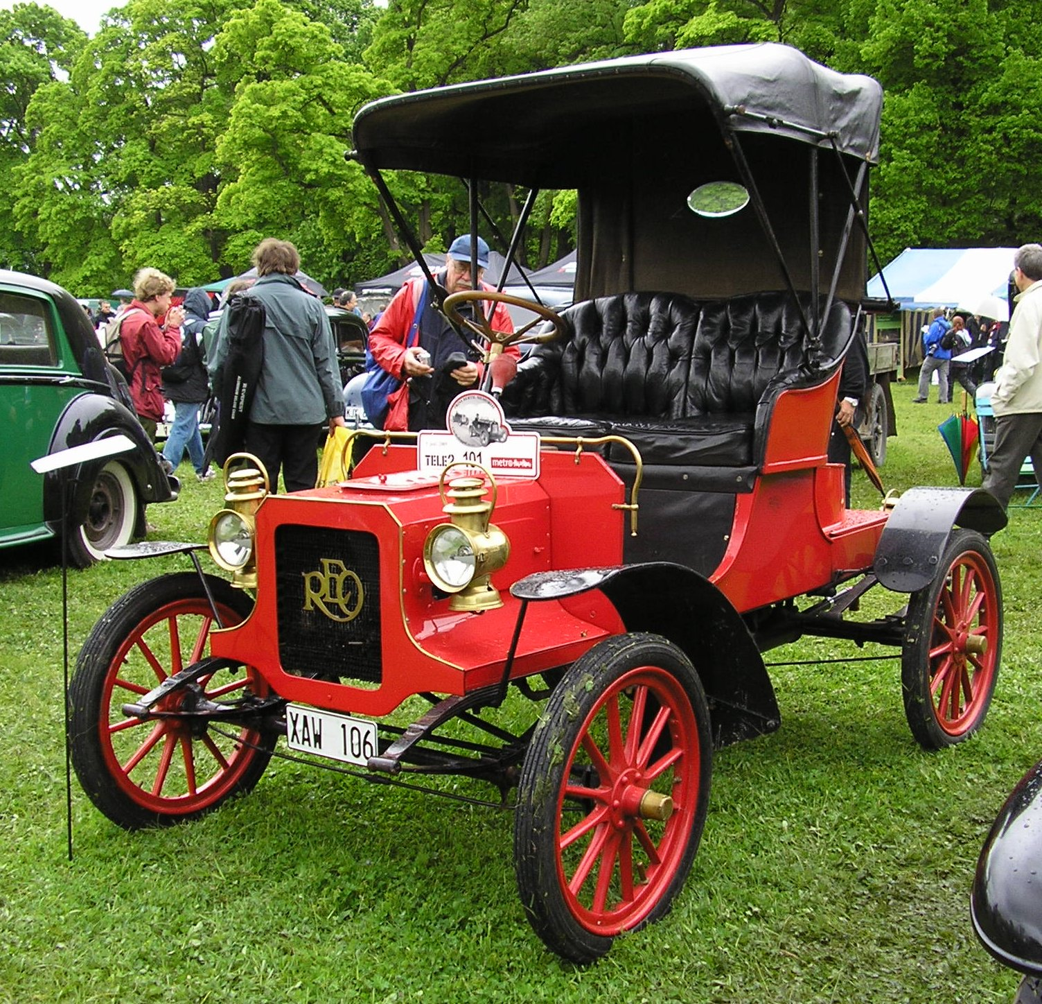 A 1906 REO Runabout. Photographed by myself at Prins Bertil Memorial in Stockholm, Sweden 2005. The car is powered by a single cylinder engine located under ther seat. The front only holds the radiator (and battery?).